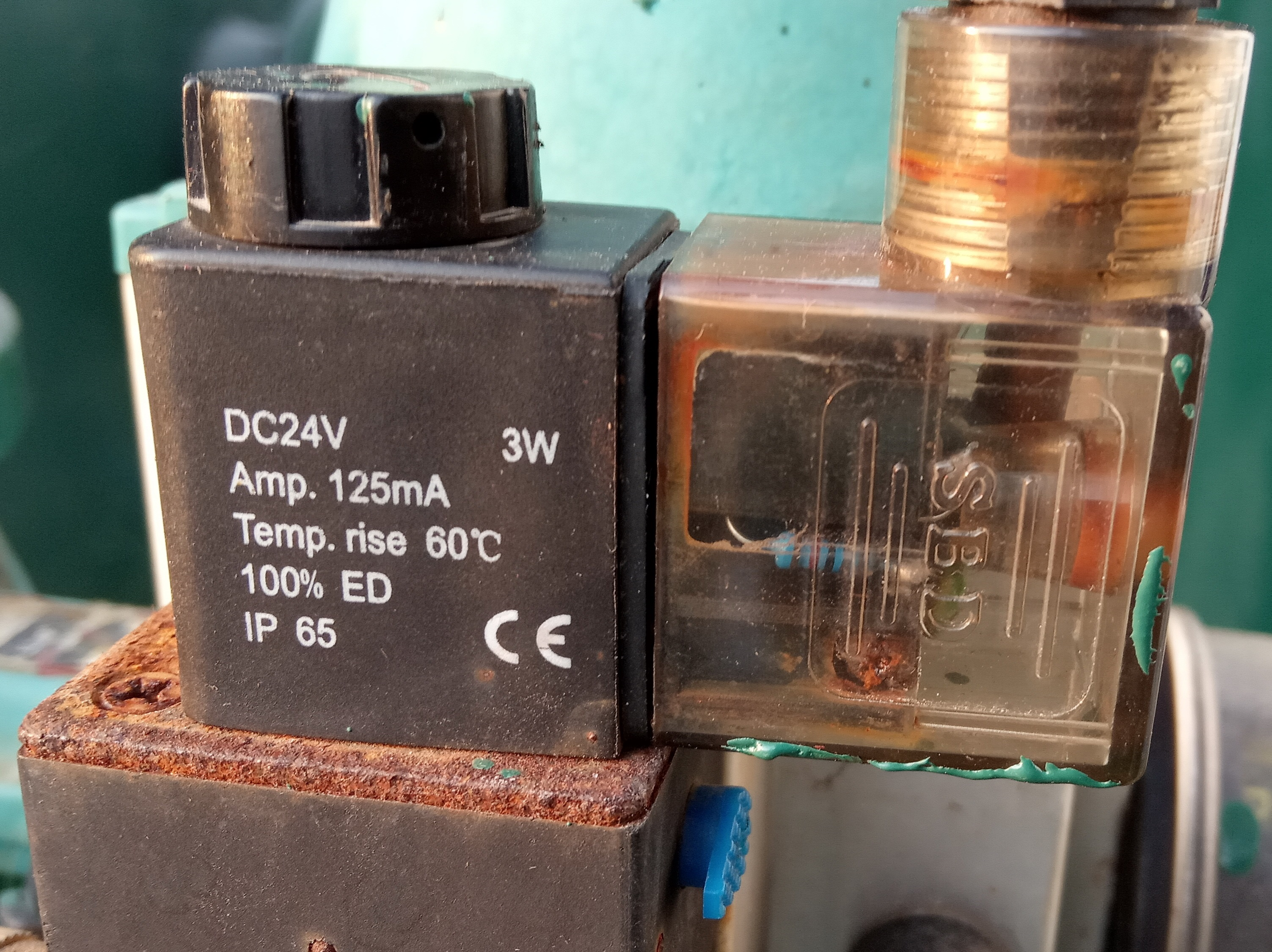 Solenoid coil (24V DC) of a pneumatic valve